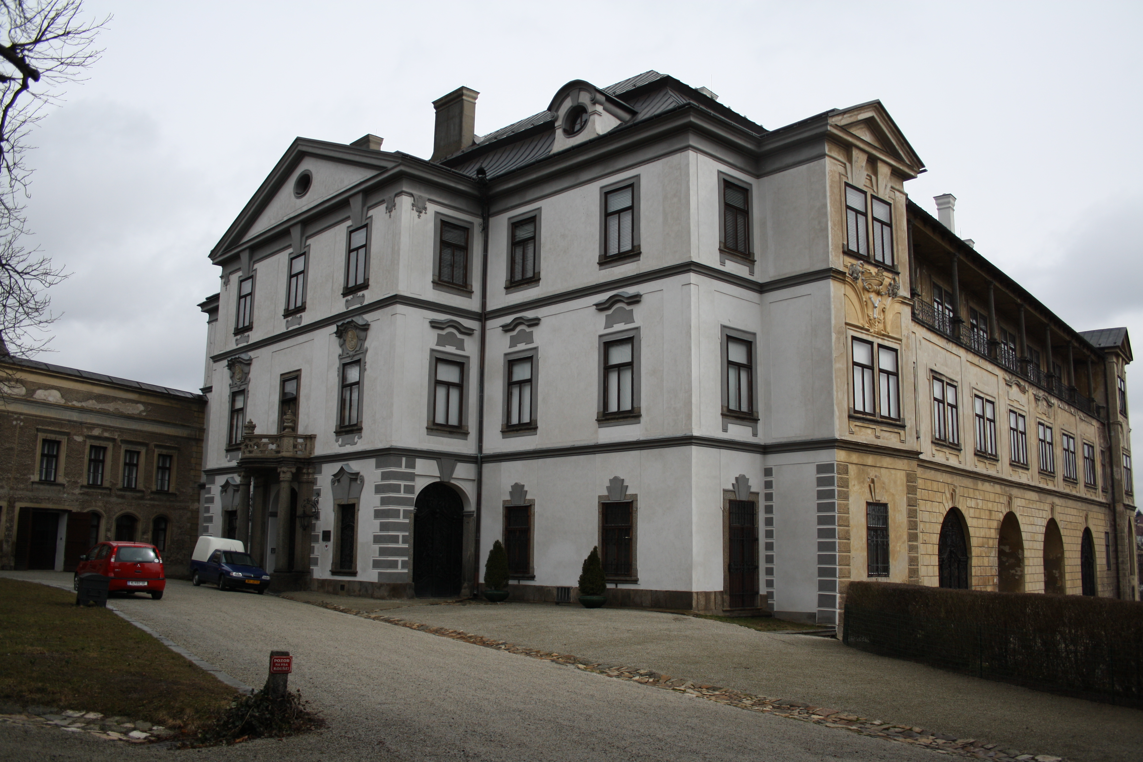 Main building of Velké Meziříčí Castle and Museum.